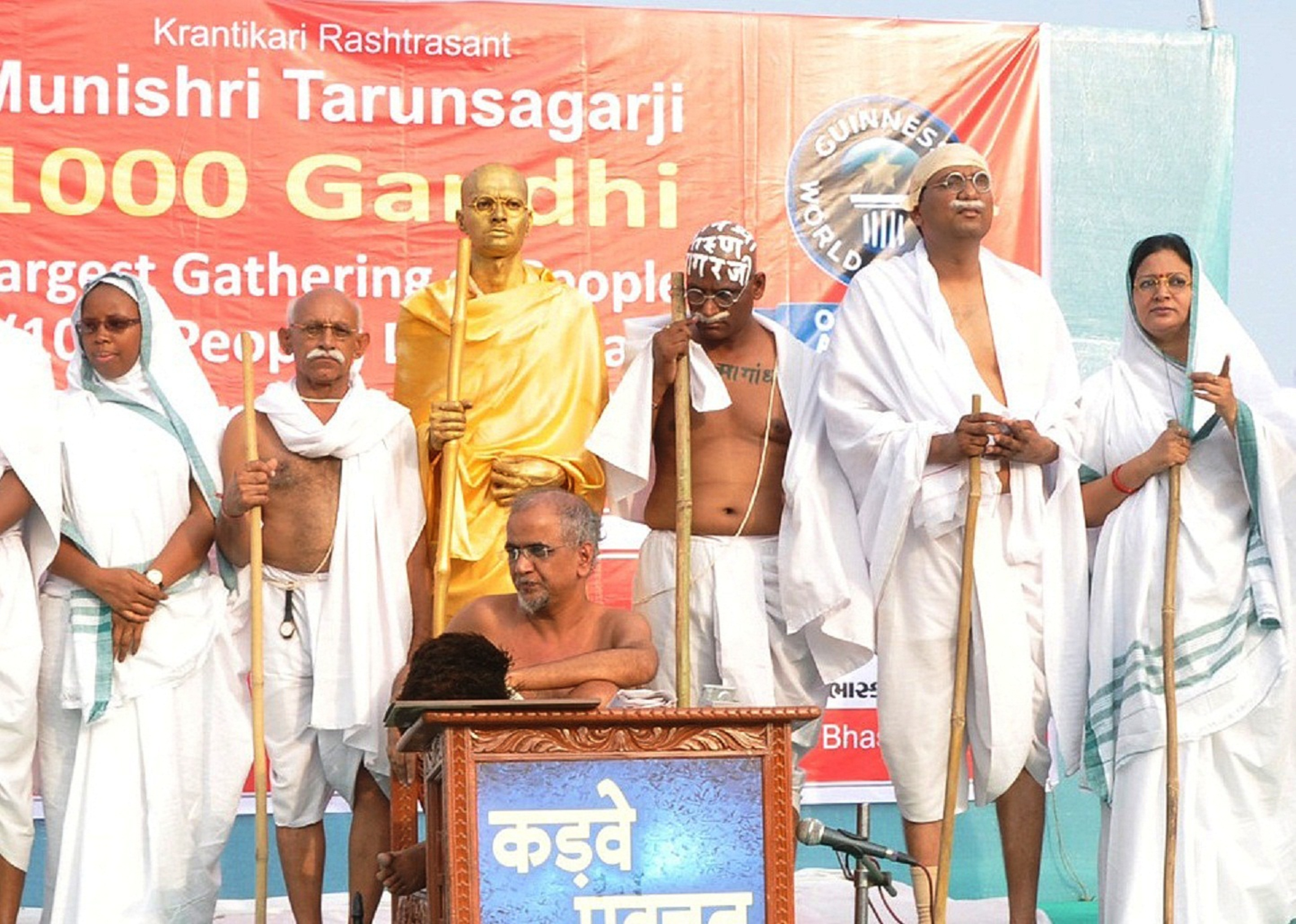 Indian corporate trainer, motivational author and keynote speaker ujjwal patni becomes mahatma gandhi at 1000 gandhi event at sabarmati, ahmedabad, india with the blessings of Muni Shri Tarunsagar ji, Guinness world record event, october 2012.jpg. The file also shows Muni shri tarunsagarji, Dr Ujjwal patni's wife rimple patni, Mla of belgaum Mr sanjay patil and his wife and few other peoples who posed as gandhi